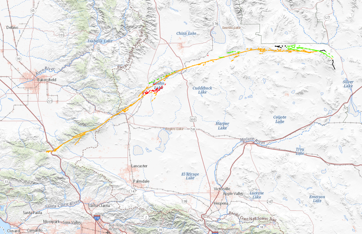 Map of the Garlock Fault zone. Screenshot of interactive map taken at closest zoom level that displayed entire fault line on my computer monitor (1920x1080p) at full-screen with sidebar hidden. A higher resolution map could be made by taking screenshots at higher zoom and stitching them together.